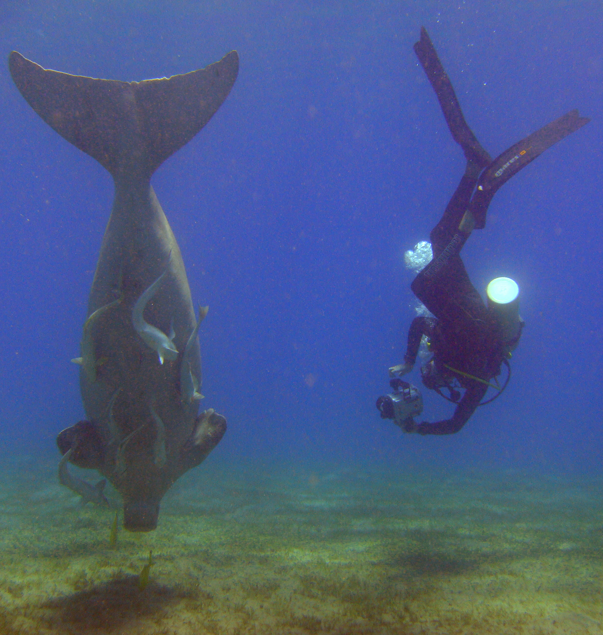 A diver taking a picture of a Dugong in Marsa Alam (Egypt).